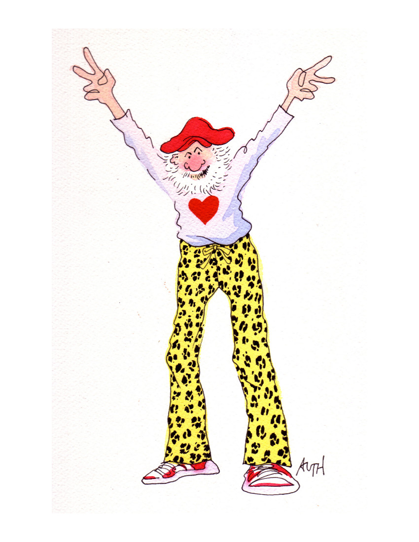 Reese Palley leopard pants red beret cartoon Tony Auth artist